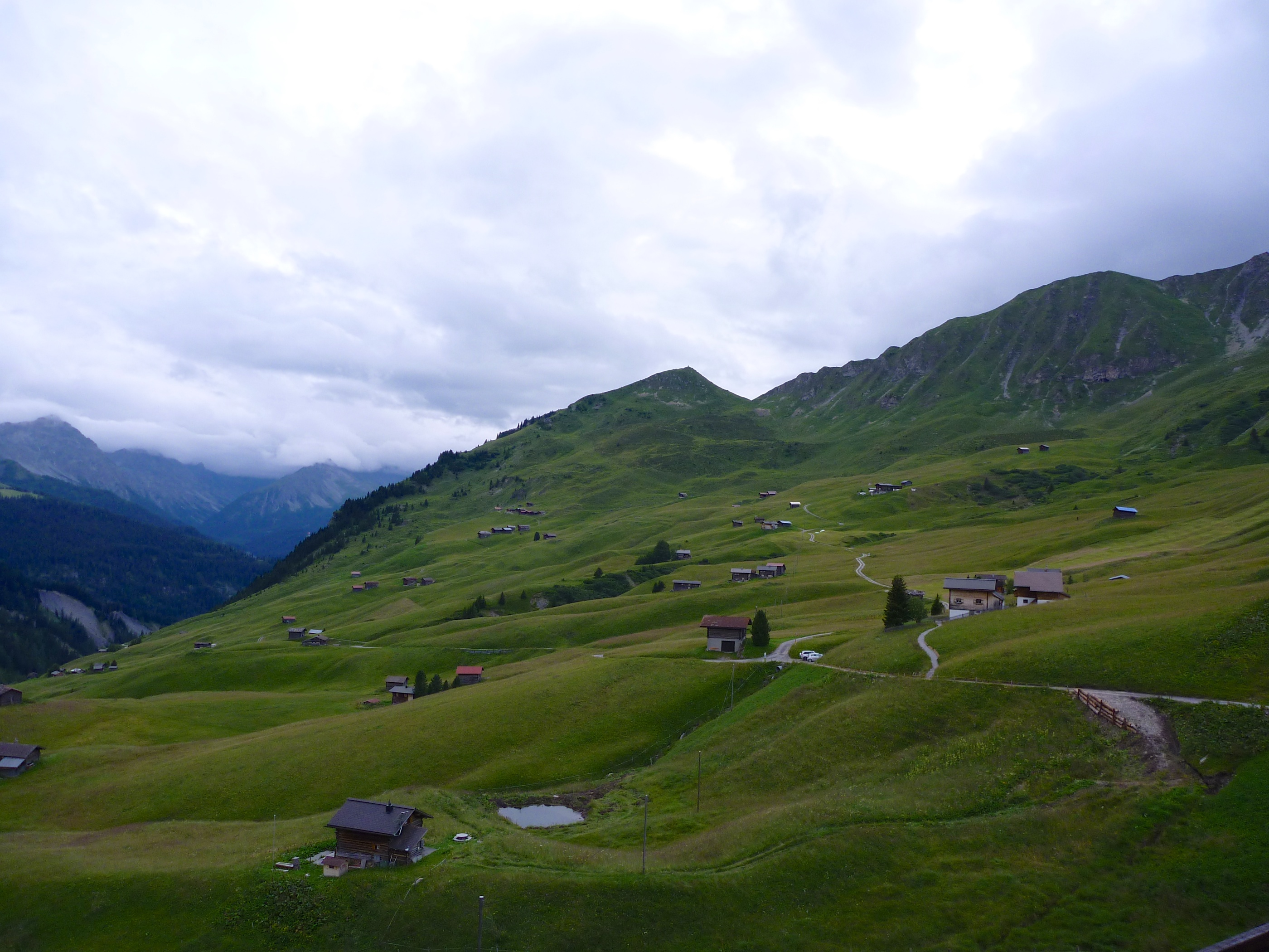 View from Strassberg into lower-Fondei Valley, Langwies/Arosa, Switzerland